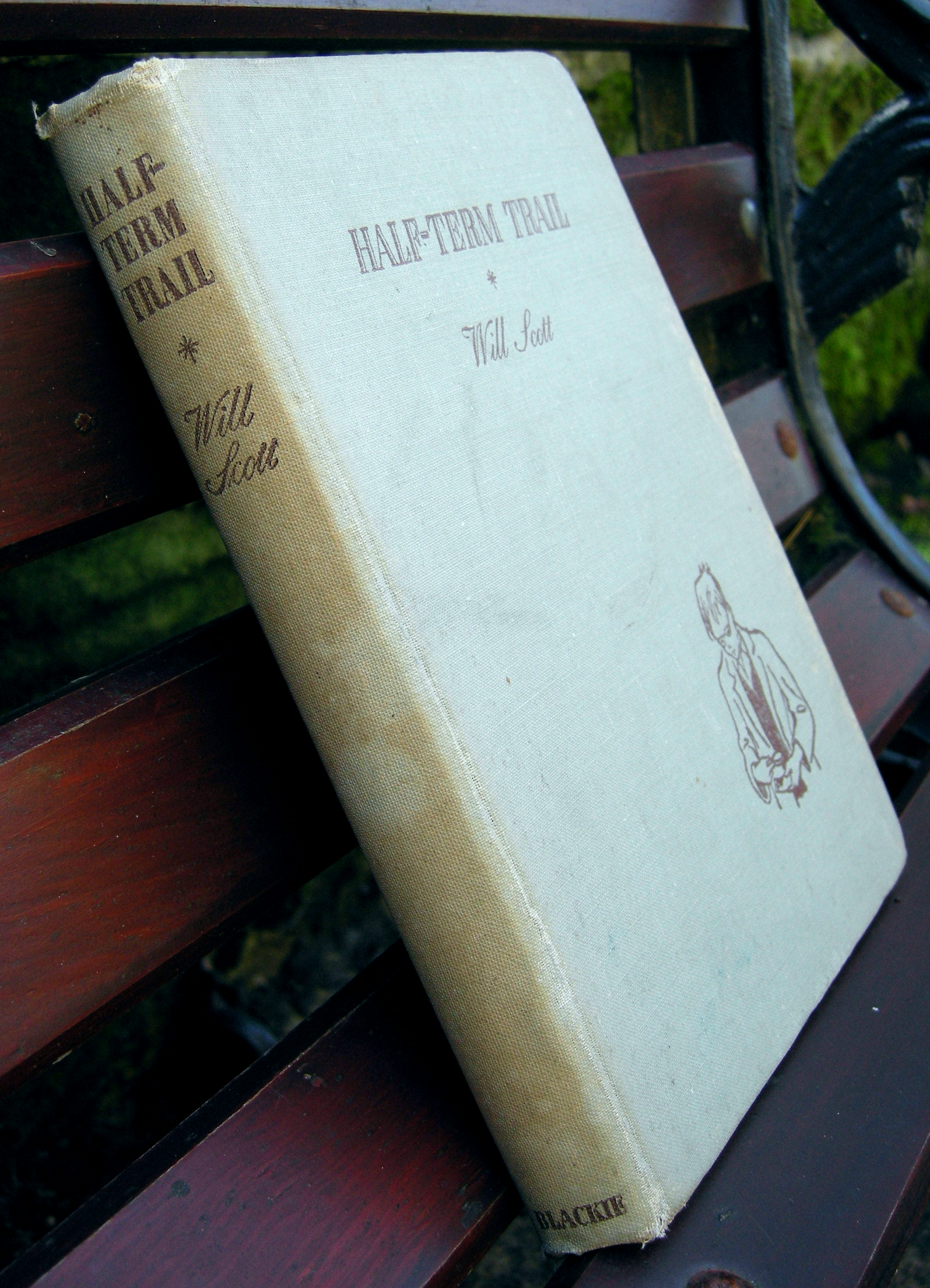 Half Term Trail by Will Scott, published 1955, first edition.